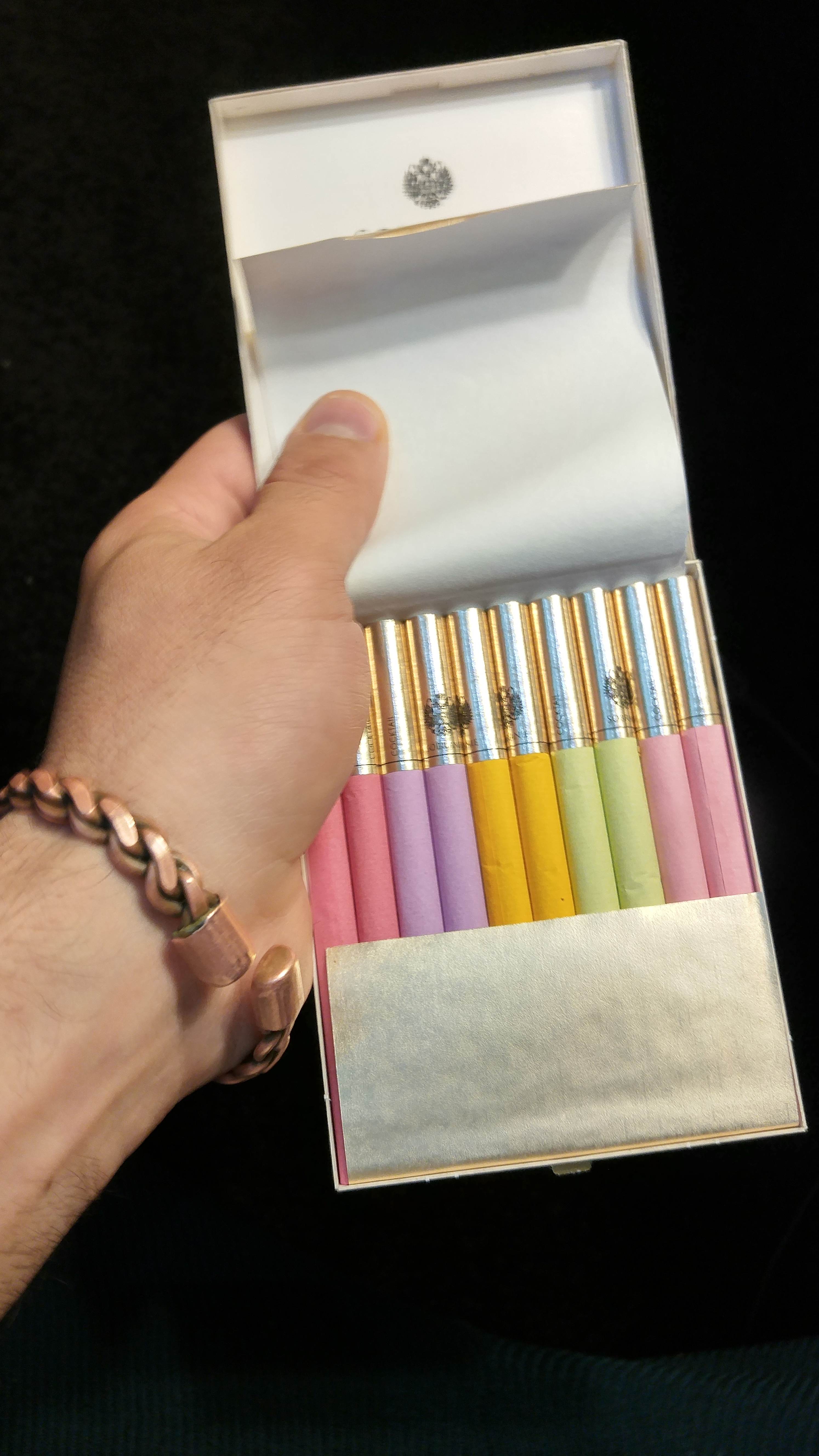 Sobranie (Russian: Собрание, "Gathering", "Collection", "Assembly") is a British brand of luxury cigarettes, currently owned and manufactured by Gallaher Group, a subsidiary of Japan Tobacco.